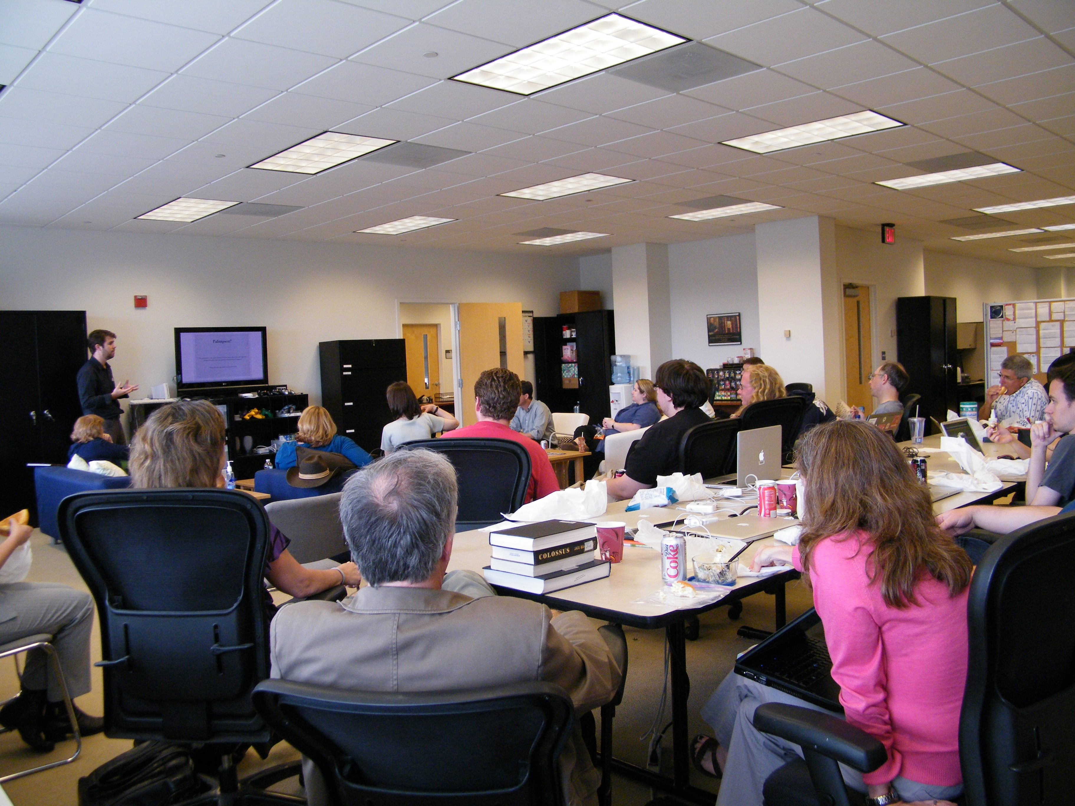 Liam Wyatt speaks at Roy Rosenzweig Center for History and New Media